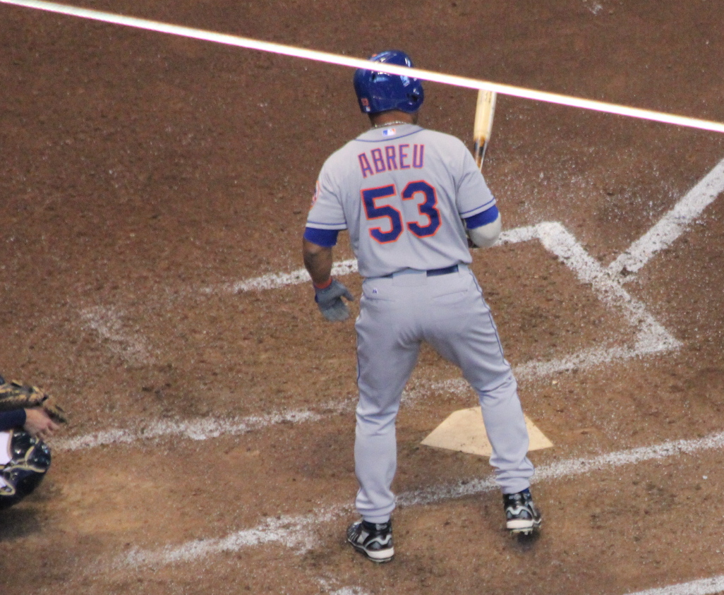 Bobby Abreu batting for the New York Mets in Milwaukee.